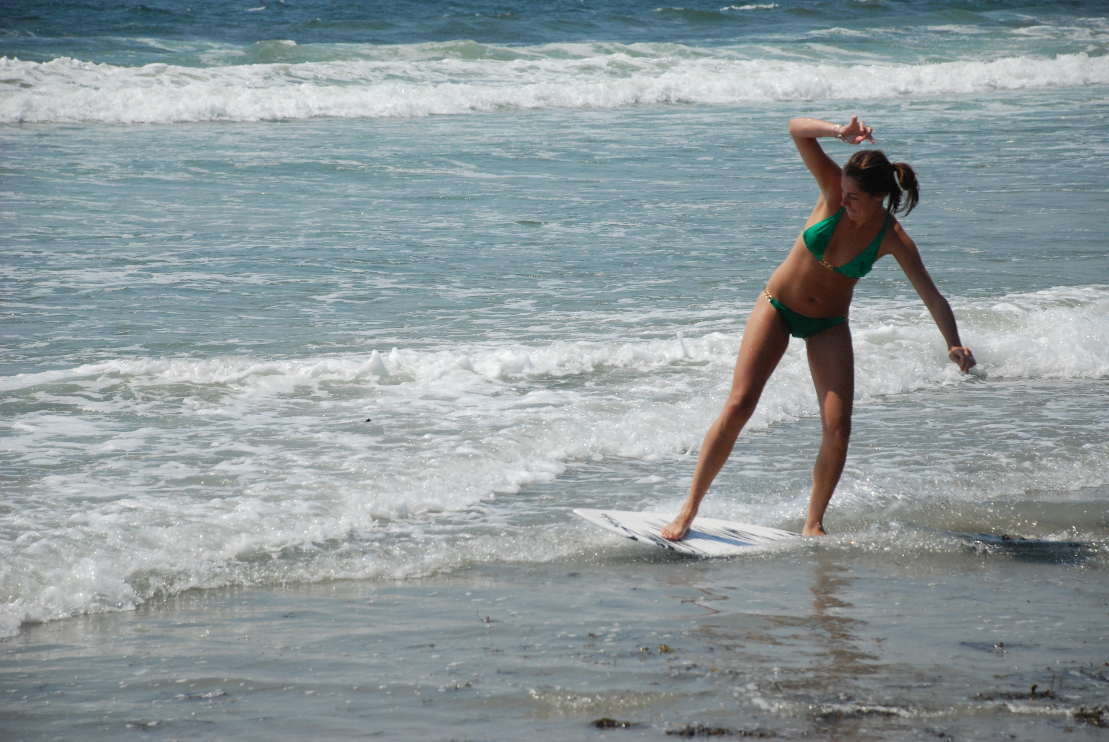 Female on a skimboard at Higgins Beach, Maine (United States).